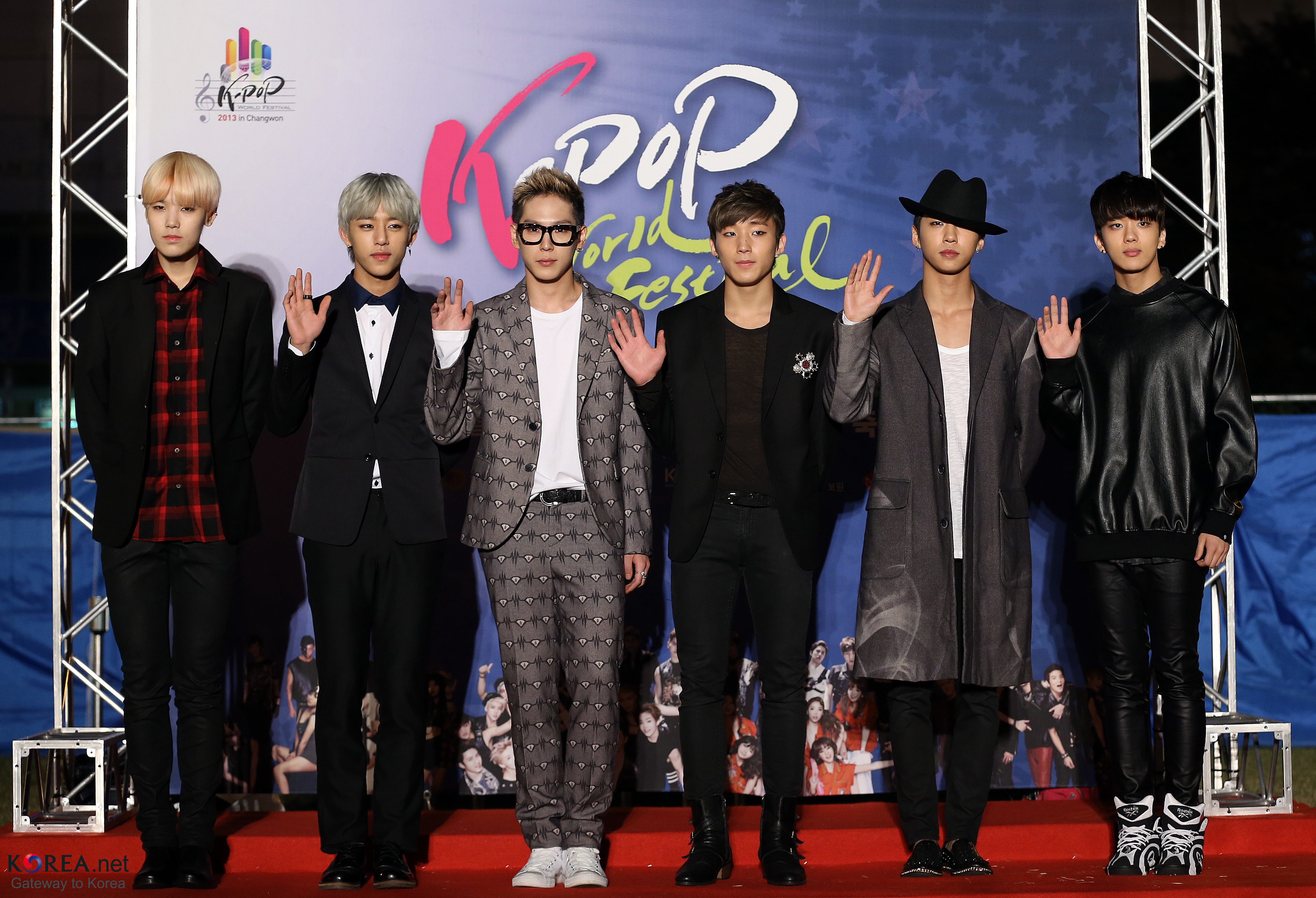 2013 K-POP World Festival in Changwon